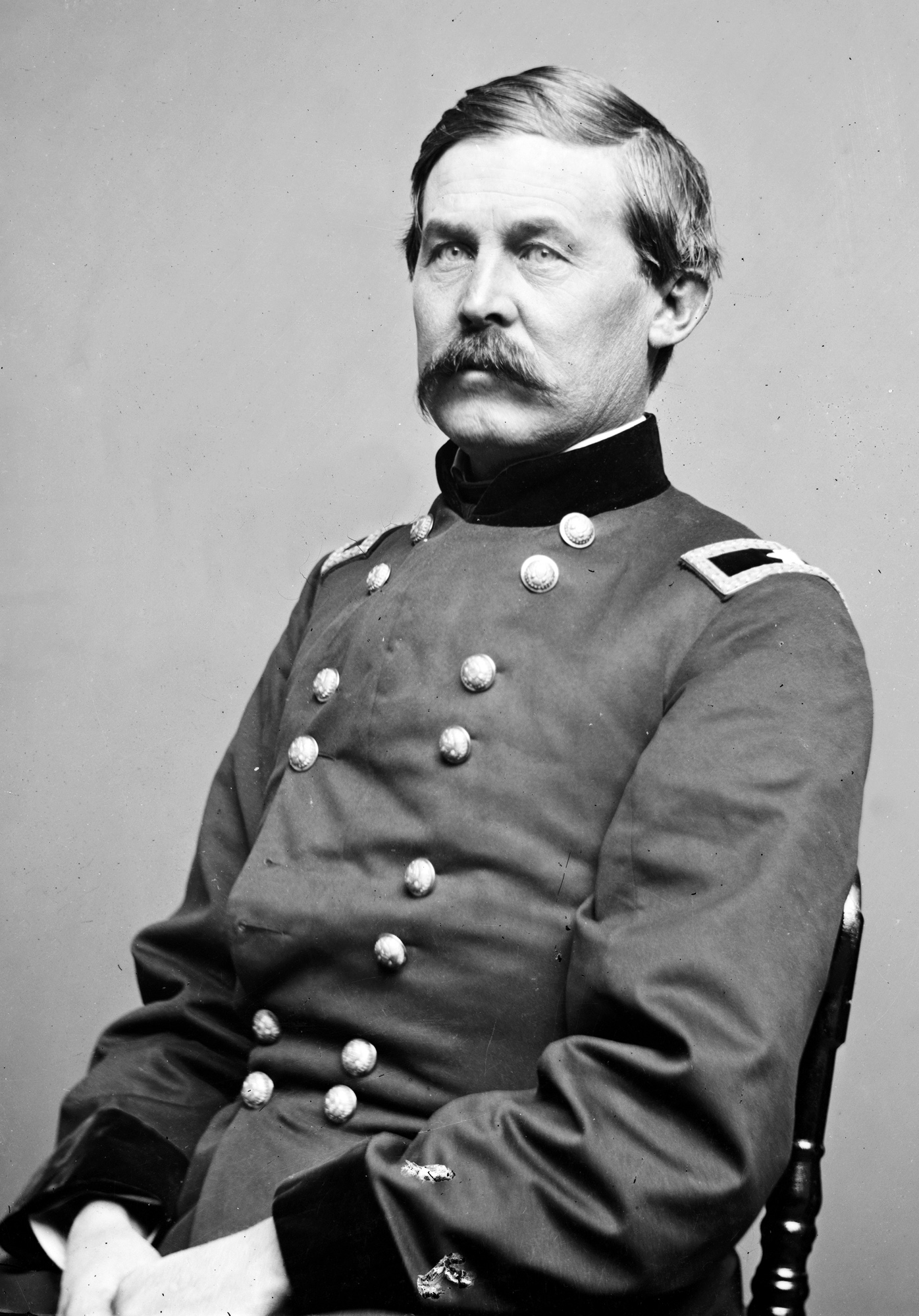 Portrait of Brig. Gen. John Buford (Maj. Gen. from July 1, 1863), officer of the Federal Army CALL NUMBER: LC-B813- 2171 A[P&P] REPRODUCTION NUMBER: LC-DIG-cwpb-06372 (b&w copy scan) LC-B8172-2171 (b&w film neg.) No known restrictions on publication. MEDIUM: 1 negative : glass, wet collodion. CREATED/PUBLISHED: [Between 1860 and 1865] CREATOR:Brady National Photographic Art Gallery (Washington, D.C.), photographer. NOTES:Civil War photographs, 1861-1865 / compiled by Hirst D. Milhollen and Donald H. Mugridge, Washington, D.C. : Library of Congress, 1977. No. 0889 Title from Milhollen and Mugridge. Forms part of Selected Civil War photographs, 1861-1865 (Library of Congress) SUBJECTS: Buford, John FORMAT: Portrait photographs. Wet collodion negatives. PART OF: Selected Civil War photographs, 1861-1865 (Library of Congress) REPOSITORY: Library of Congress Prints and Photographs Division Washington, D.C. 20540 USA DIGITAL ID: (b&w scan) cwpb 06372 (intermediary roll copy film) cwp 4a40403